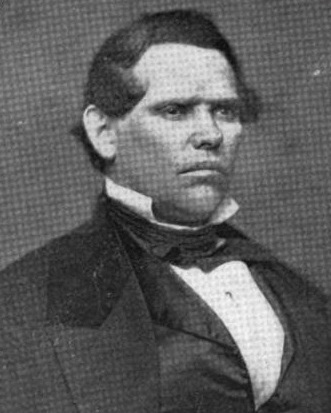 Andrew Jackson Harlan, Indiana Congressman